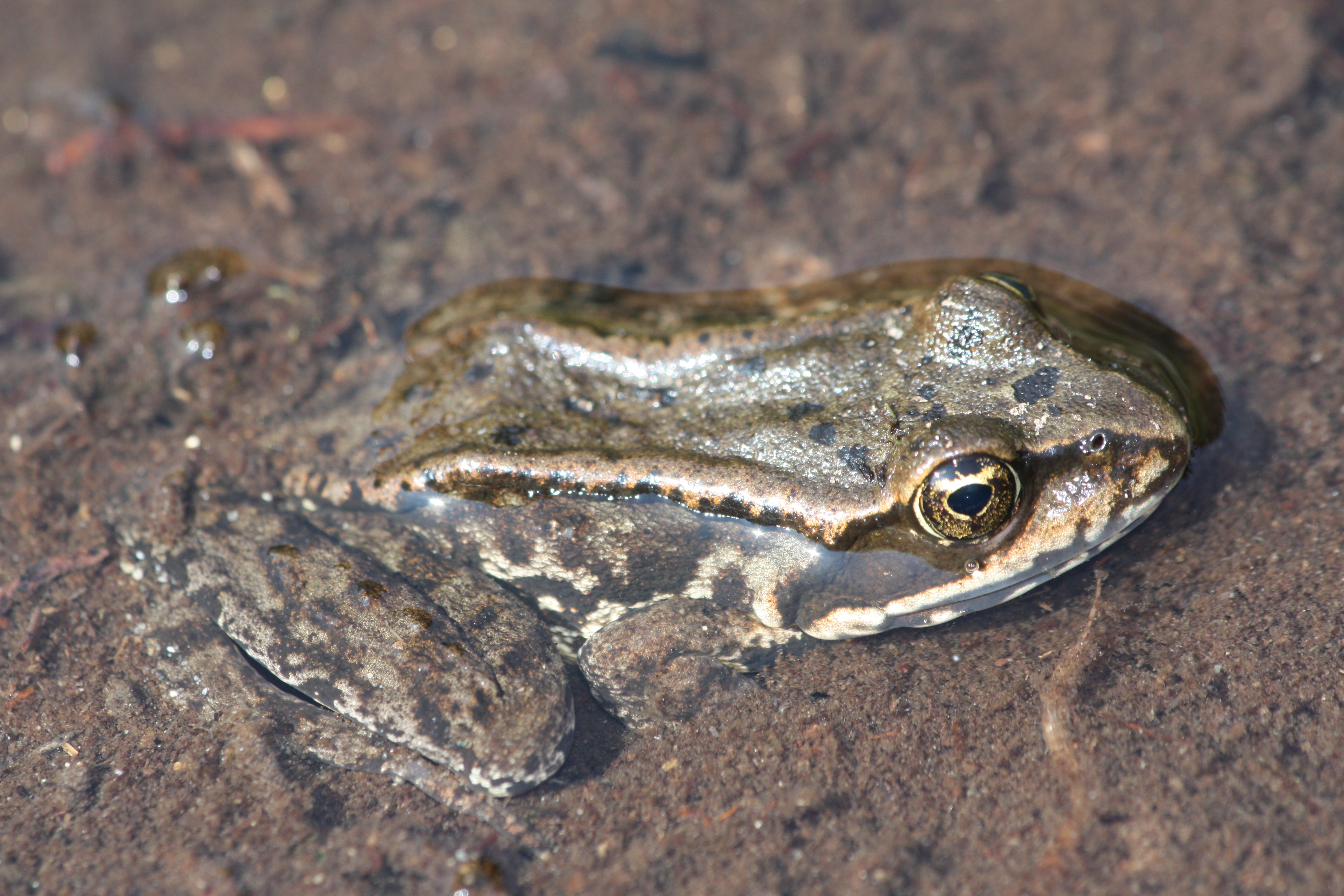 Cascades Frog